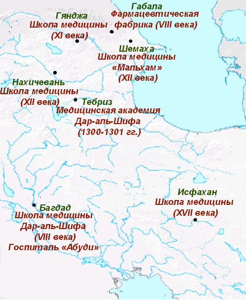 Large medical centers of medieval Azerbaijan and neighboring regions (Russian).